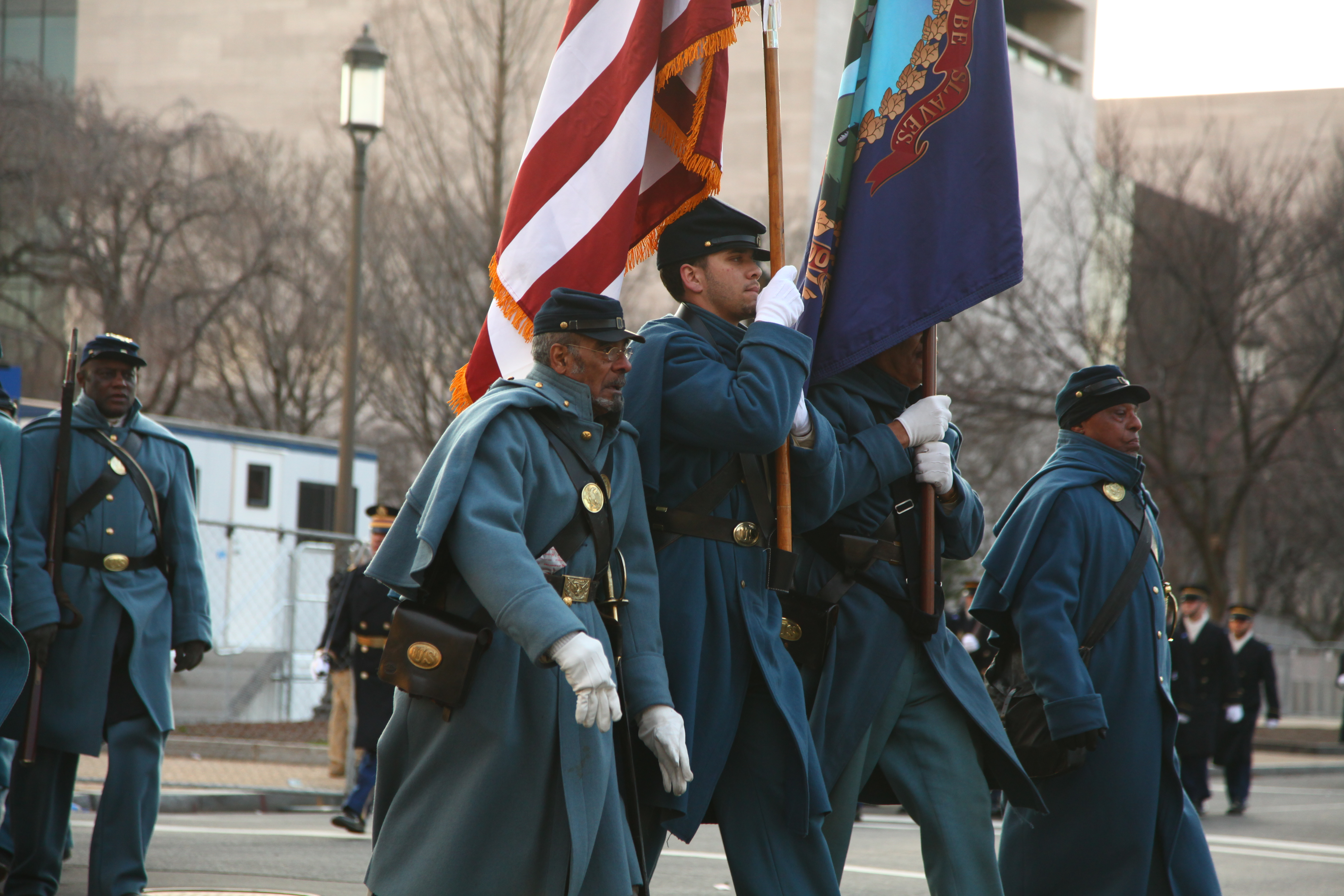 Members of the 54th Massachusetts Volunteer Regiment color guard march during the 57th presidential inauguration parade Jan. 21, 2013, in Washington, D.C. President Barack H. Obama was elected to a second four-year term in office Nov. 6, 2012. More than 5,000 U.S. Service members participated in or supported the inauguration.